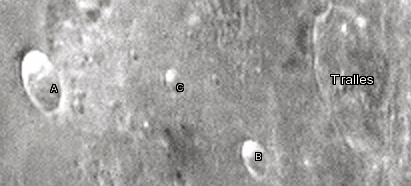 Tralles lunar crater as seen from Earth with satellite craters labeled